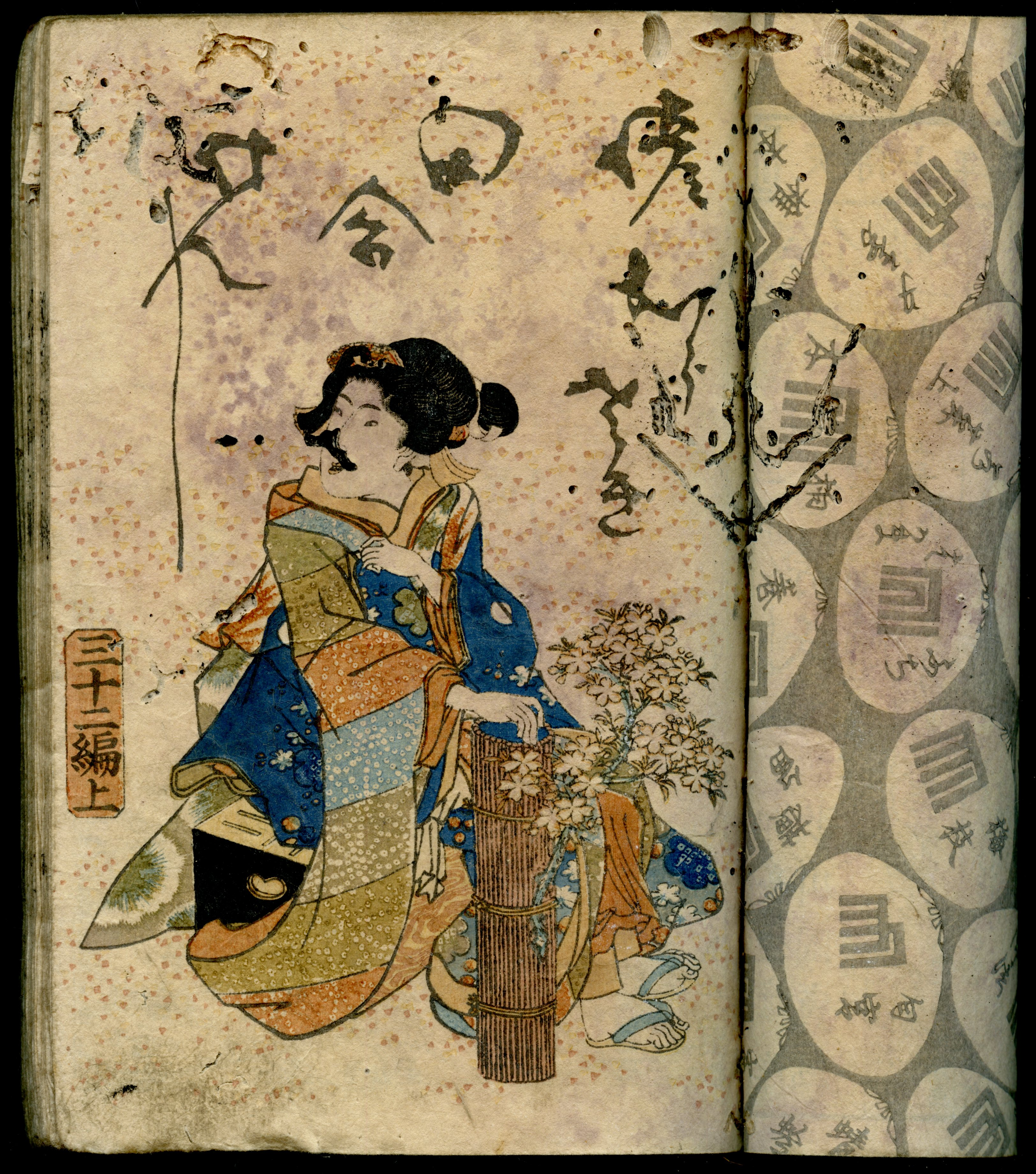 Nise Murasaki inaka Genj - A Country Genji by a Fake/an Imitation Murasaki A gōkan e-hon series, derived/parody/reworking of Genji Monogatari - The Tale of Genji. Published in 38(?) chapters, comprising __? e-hon volumes, the series ran from 1829 to 1842. author: Ryūtei Tanehiko（柳亭種彦), 1783-1842 e-hon illustrations by: Utagawa Kunisada At right are Genji-mon (源氏紋) or Genji-Kô (源氏香) symbols[1] (see File:Genji chapter symbols groupings of 5 elements.svg), used as part of the design for the back cover of the previous volume in the series.